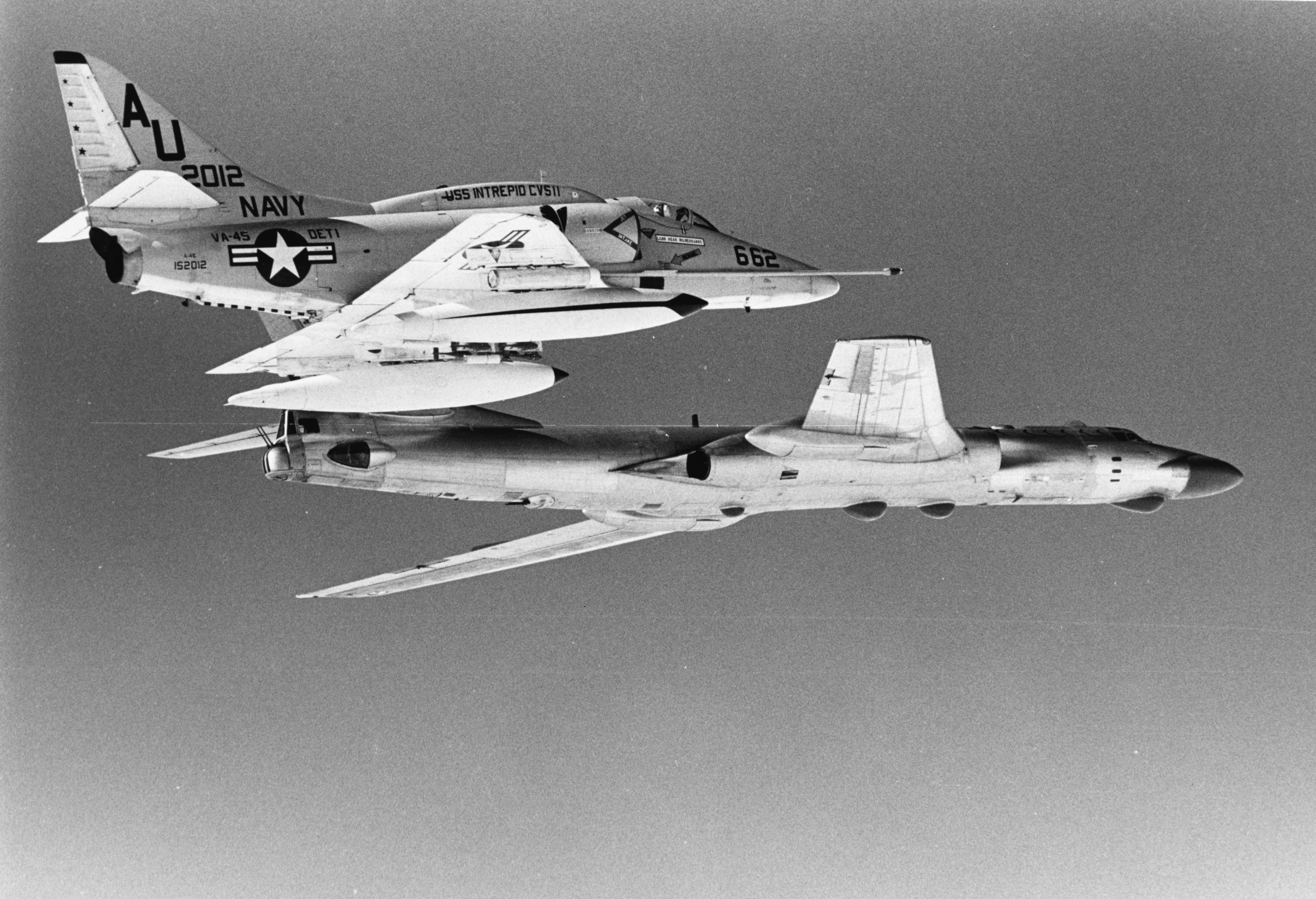 A U.S. Navy Douglas A-4E Skyhawk (BuNo 152012) from Attack Squadron 45 (VA-45) Det.1 "Blackbirds" esccorts a Soviet Tupolev Tu-16 (NATO reporting code "Badger"). VA-45 Det.1 was assigned to Carrier Anti-Submarine Air Group 56 (CVSG-56) aboard the aurcraft carrier USS Intrepid (CVS-11) for a deployment to the North Atlantic from 11 July to 15 October 1972 and to the Mediterranen Sea from 24 November 1972 to 4 May 1973.